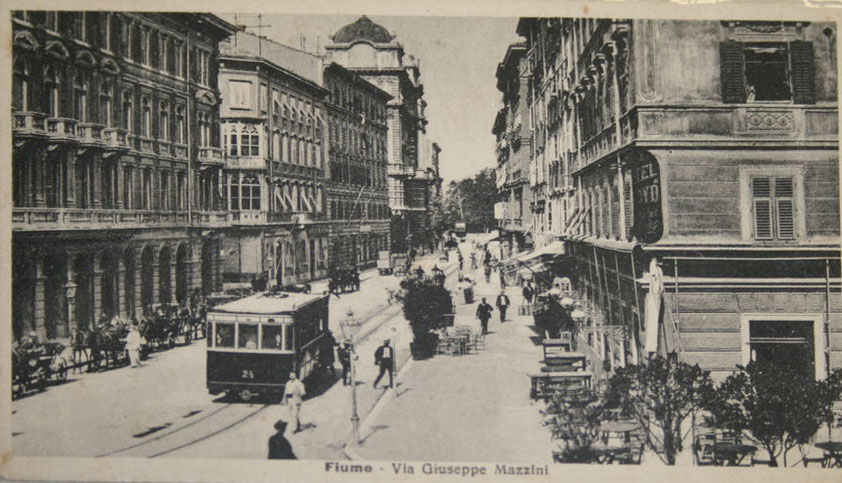 Old tram in Rijeka, Croatia